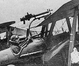 Closeup of gun installation on SE.5 Original image taken by a British government employee prior to 1956.